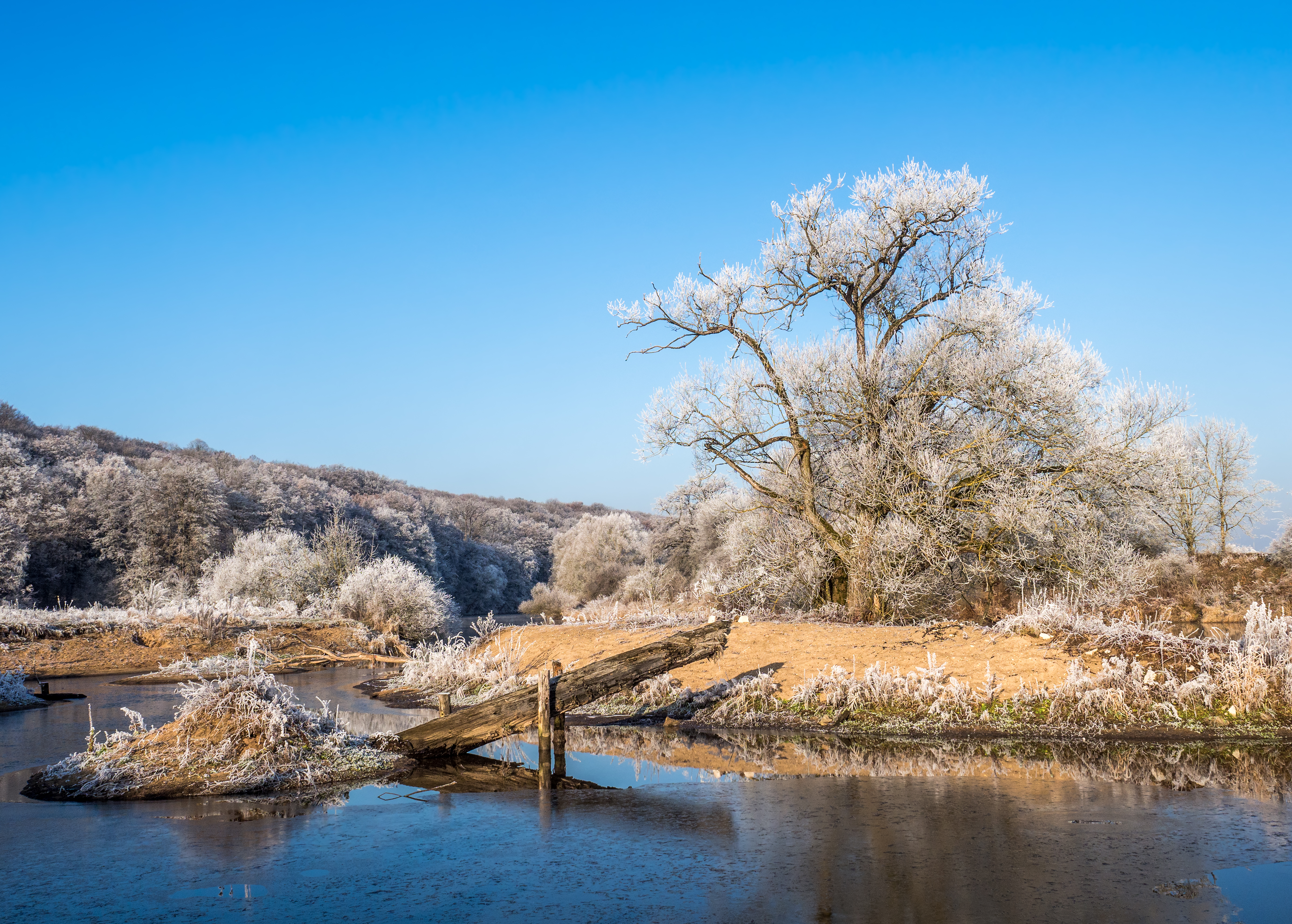 Willows covered with hoarfrost on the Regnitz River between Bamberg and Pettstadt